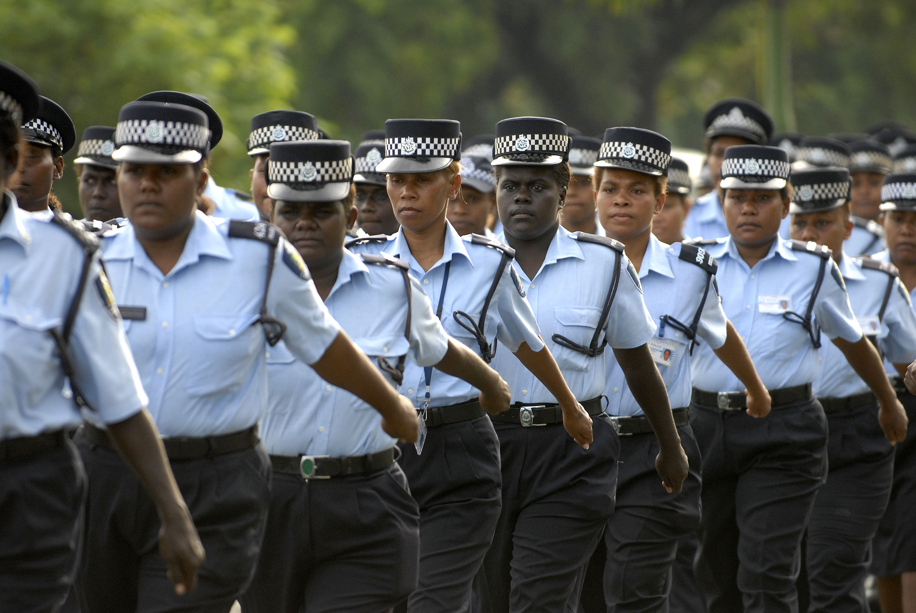 'Royal Solomon Islands Police Force female officers march down the main street of Honiara on International Women’s Day, 8 March 2010' (RAMSI brochure). Members of Combined Task Force 635 and the Regional Assistance Mission to Solomon Islands (RAMSI) joined in the marching parade for International Women’s Day on March 8. Around two hundred people, including members of the community, the Royal Solomon’s Island Police Force, Corrections Officers and Custom’s Officers were campaigning for women’s rights and gender equality.